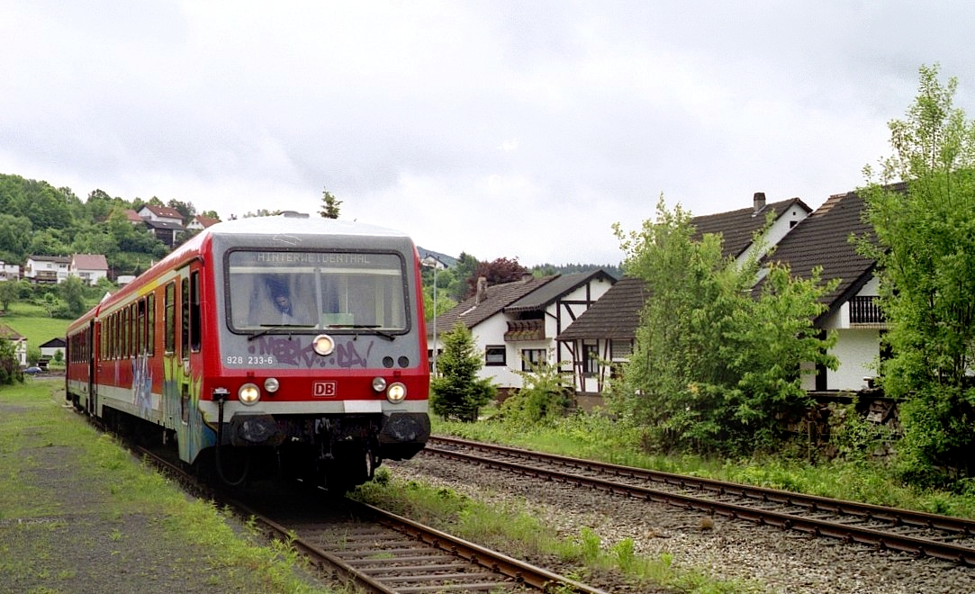 This branch known as the Wieslauterbahn runs from Hinterweidenthal Ost (on the Landau to Pirmasens line) to Bundenthal-Rumbach close to the French border. Originally it lost its passenger services in 1966, it was kept open by occasional freight trains. In 2001 seasonal weekend trains began, operated by DB Regio with track maintenance being tendered out. Seen here at the end of the line on 18 May 2003 is unit 628.233 on train RB23891,11:00 Bundenthal-Rumbach to Hinterweidenthal Ost.